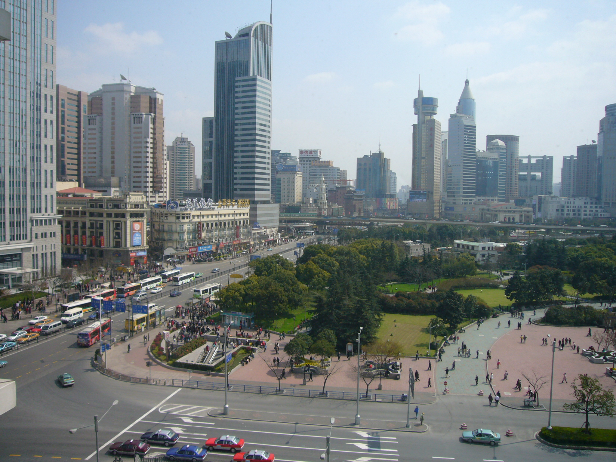 People Square seen from the Urban Planning Exhibition Center